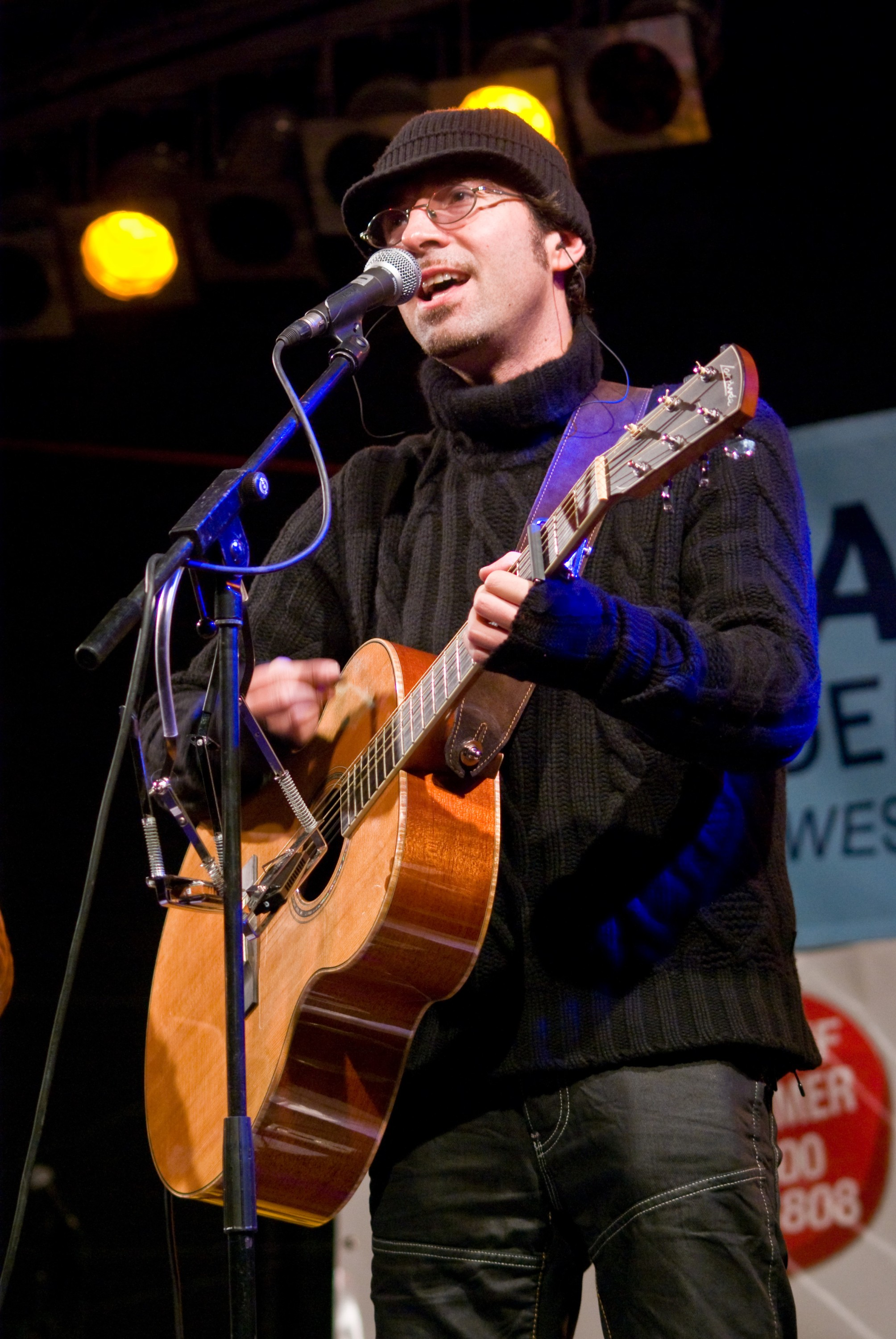 Austrian band Papermoon (Christof Straub). Concert at Christmas in the park in St. Pölten on 6 December 2008.